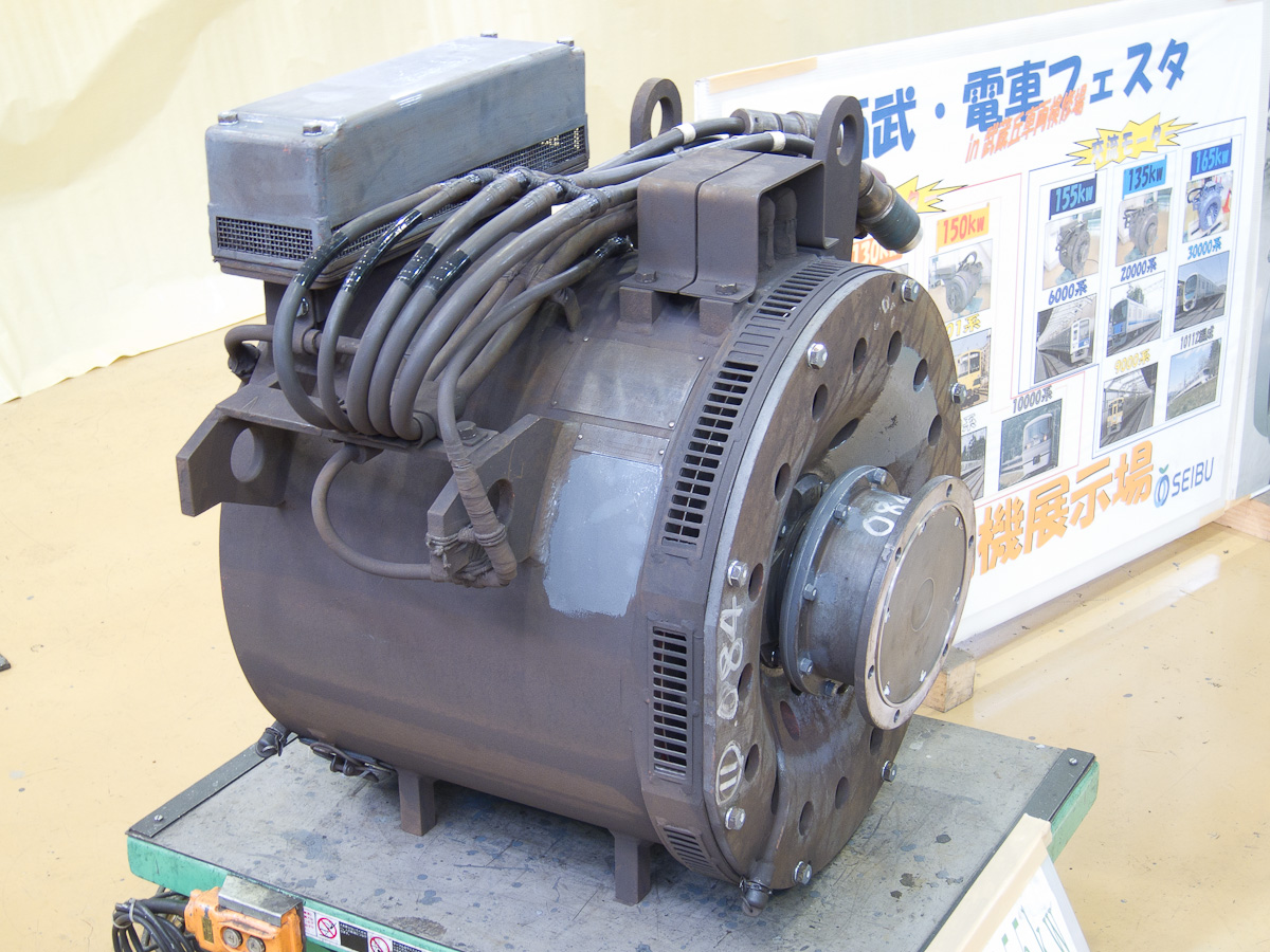 155kW Induction motor for Seibu Railway 6000 series EMU.